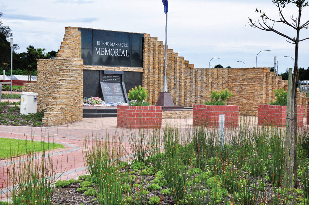 The Bhisho Massacre Memorial Site in Bhisho commemorates the victims of the Bhisho Massacre.